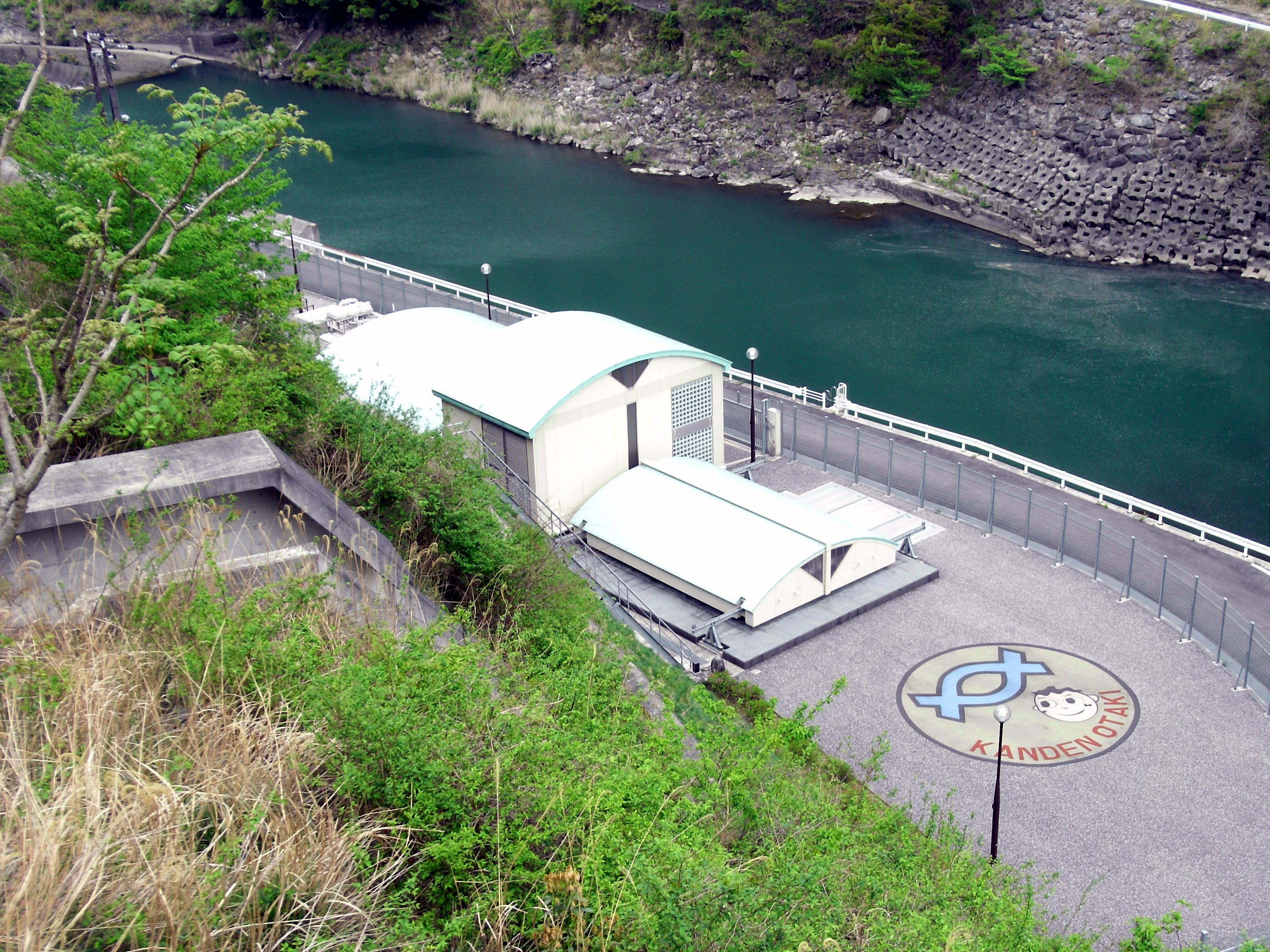 Otaki power station(Kansai Electric Power Co./Kinogawa river/Nara Pref./Japan)